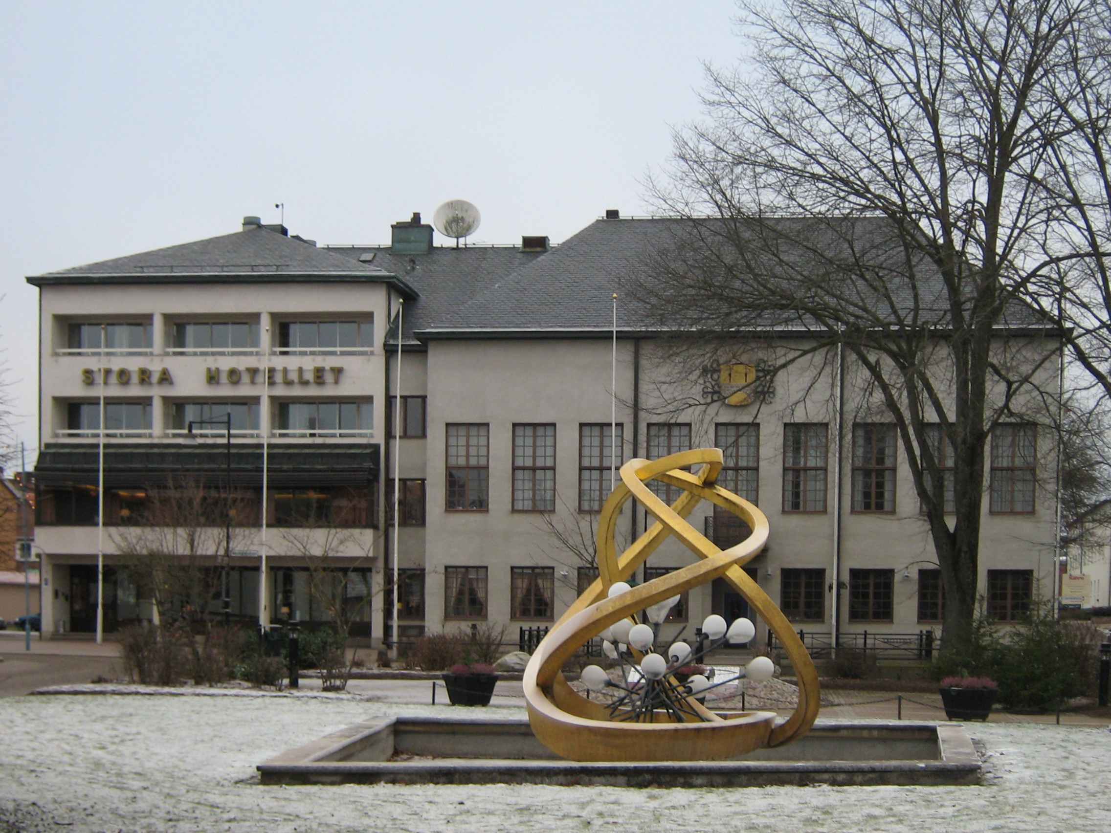 Nybro. Old town hall and sculpture "Glas i centrum" by Vicke Lindstrand.